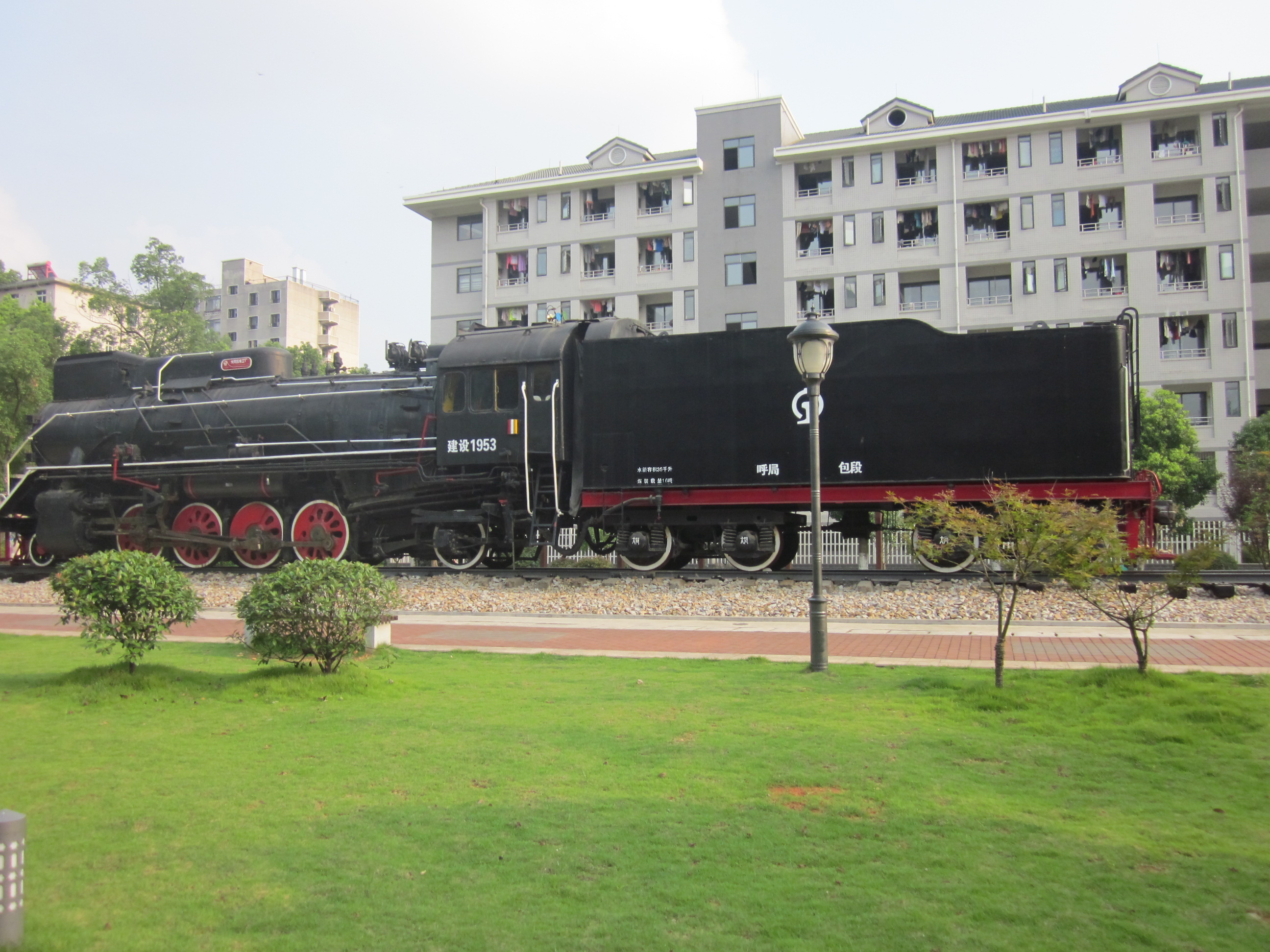 Central South University Railway Campus (Chinese: 中南大学铁道学院), is one of the professional graduate schools of Central South University. Located in Yuhua District, Changsha, Hunan, China.